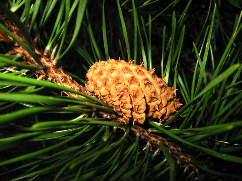 Pinus contorta Description: Tamarack Pine, Pinus contorta subsp. murrayana, foliage and female cone Viewpoint location: Soda Mountain Road about 1.0 km east of Soda Mountain, Cascade-Siskiyou National Monument. Estimated location error along road ~200 m. Lat/Long: 42.0624°N, 122.4674°W (WGS84/NAD83) USGS Soda Mountain Quad [1] Viewpoint elevation: 5240' View direction: n/a Date and time: 2005.10.22 15:06:50 PDT Camera: Canon PowerShot S110 Photographer: Walter Siegmund ©2005 Walter Siegmund